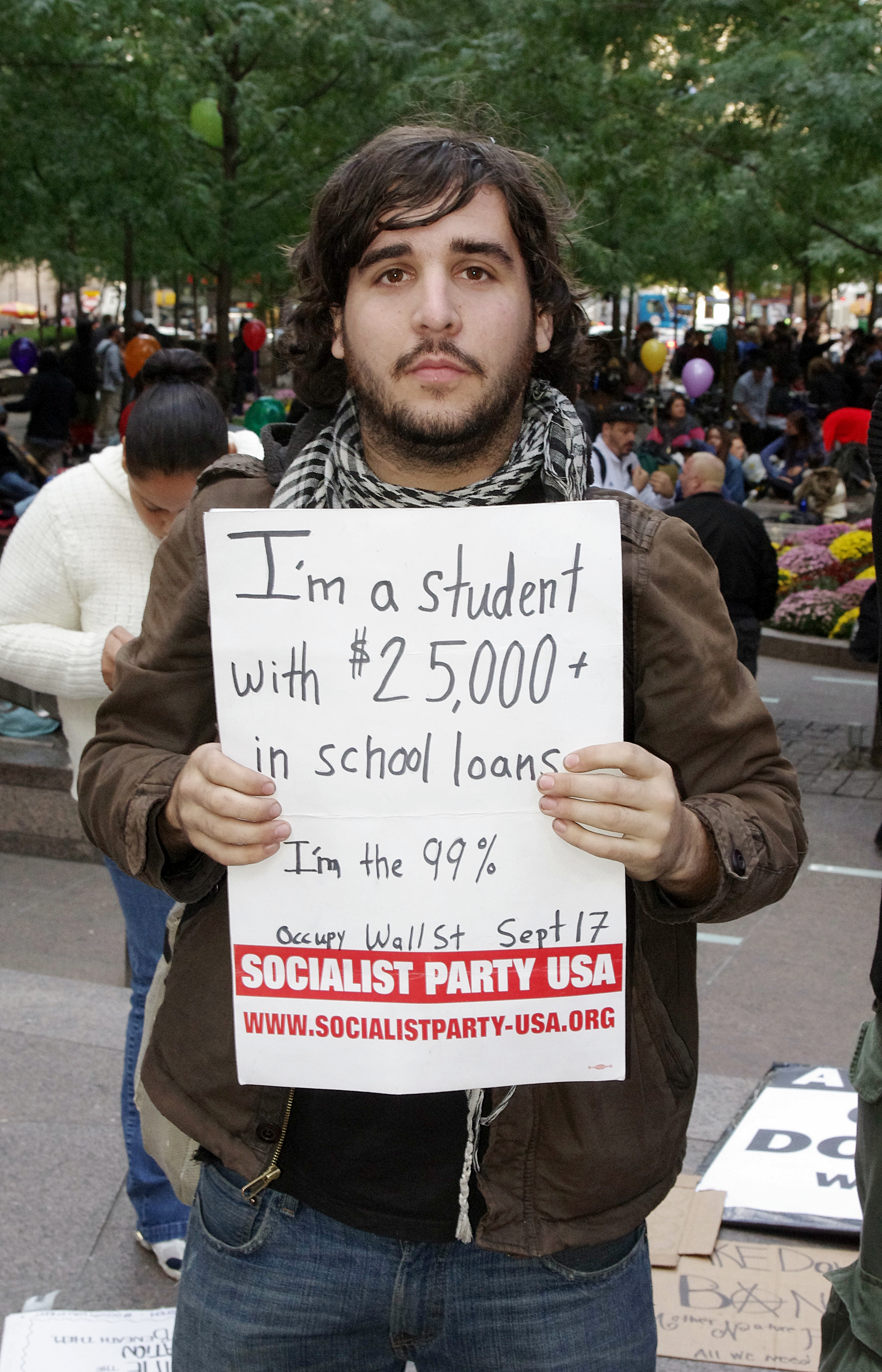 Day 3 of the protest Occupy Wall Street in Manhattan's Zuccotti Park.